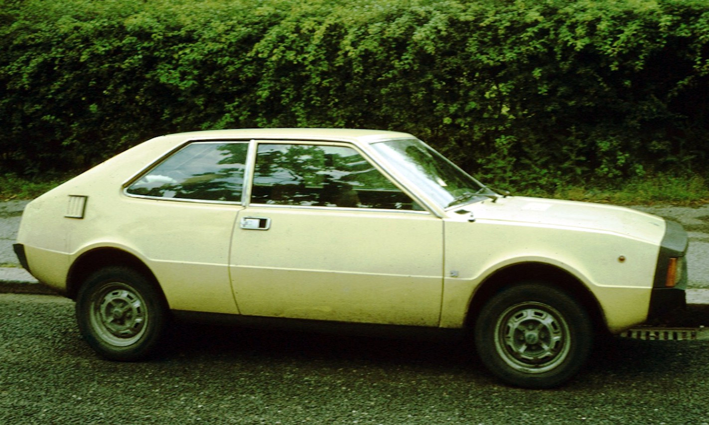 SEAT 1200 Sport "Bocanegra" - 1975 -in profile